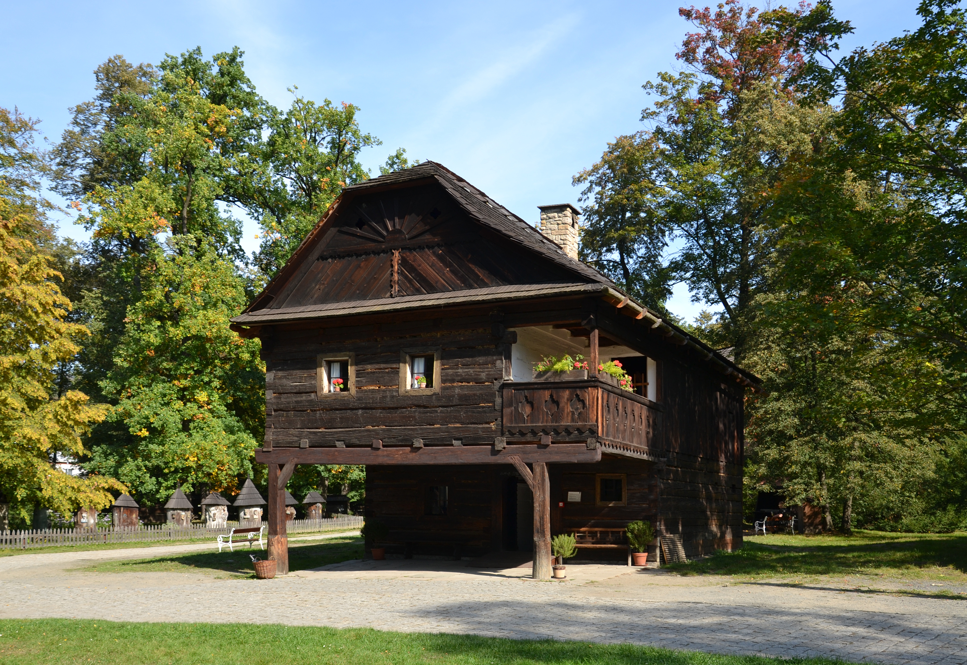 Wallachian Open Air Museum, Czech Republic - Bill's townhouse